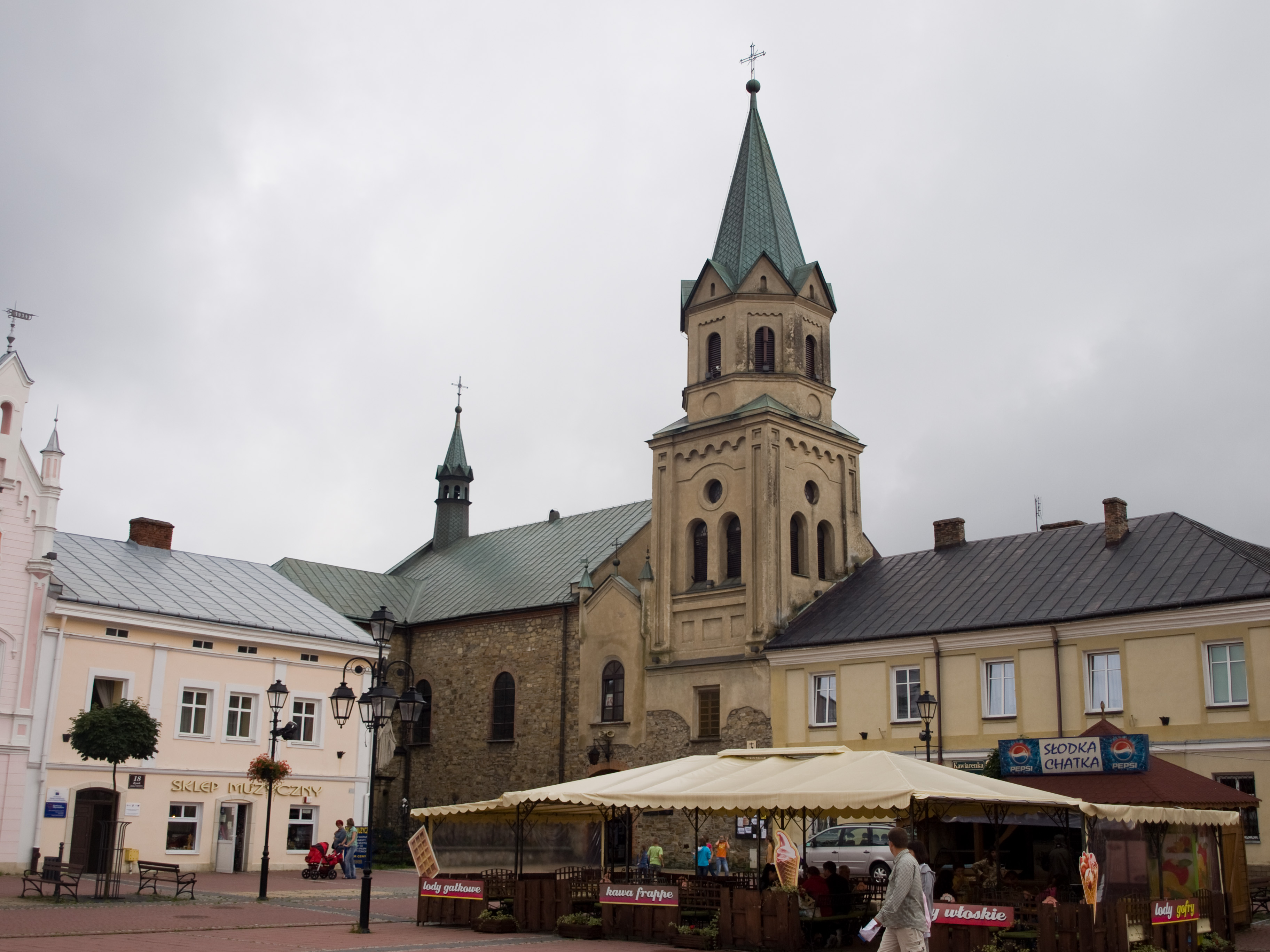 Church, Sanok, Subcarpathian Voivodeship